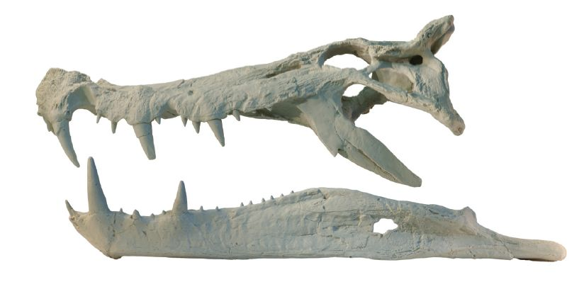 Skull of the crocodyliform Kaprosuchus saharicus. Cranium and lower jaws in left lateral view.